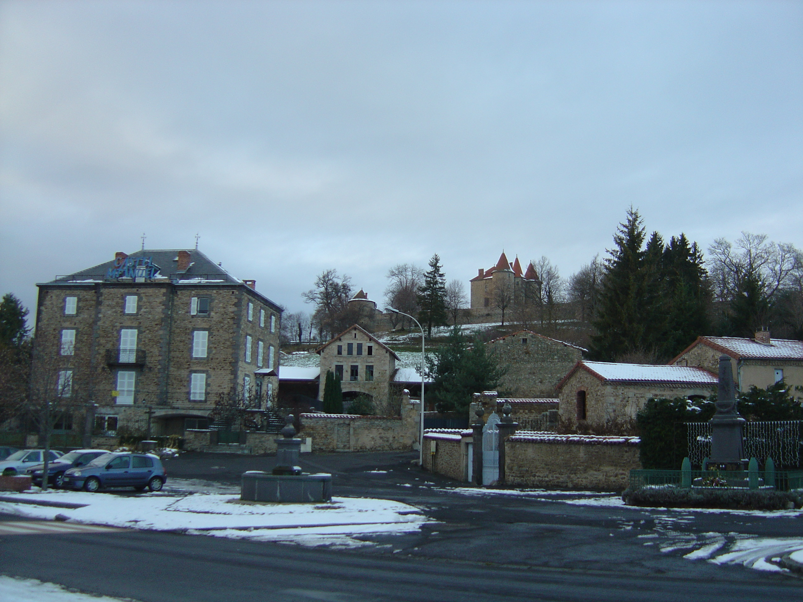 Centre-ville de Vernet-la-Varenne (Auvergne, 63, Livradois)